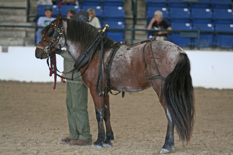 Photo by Heather Abounader